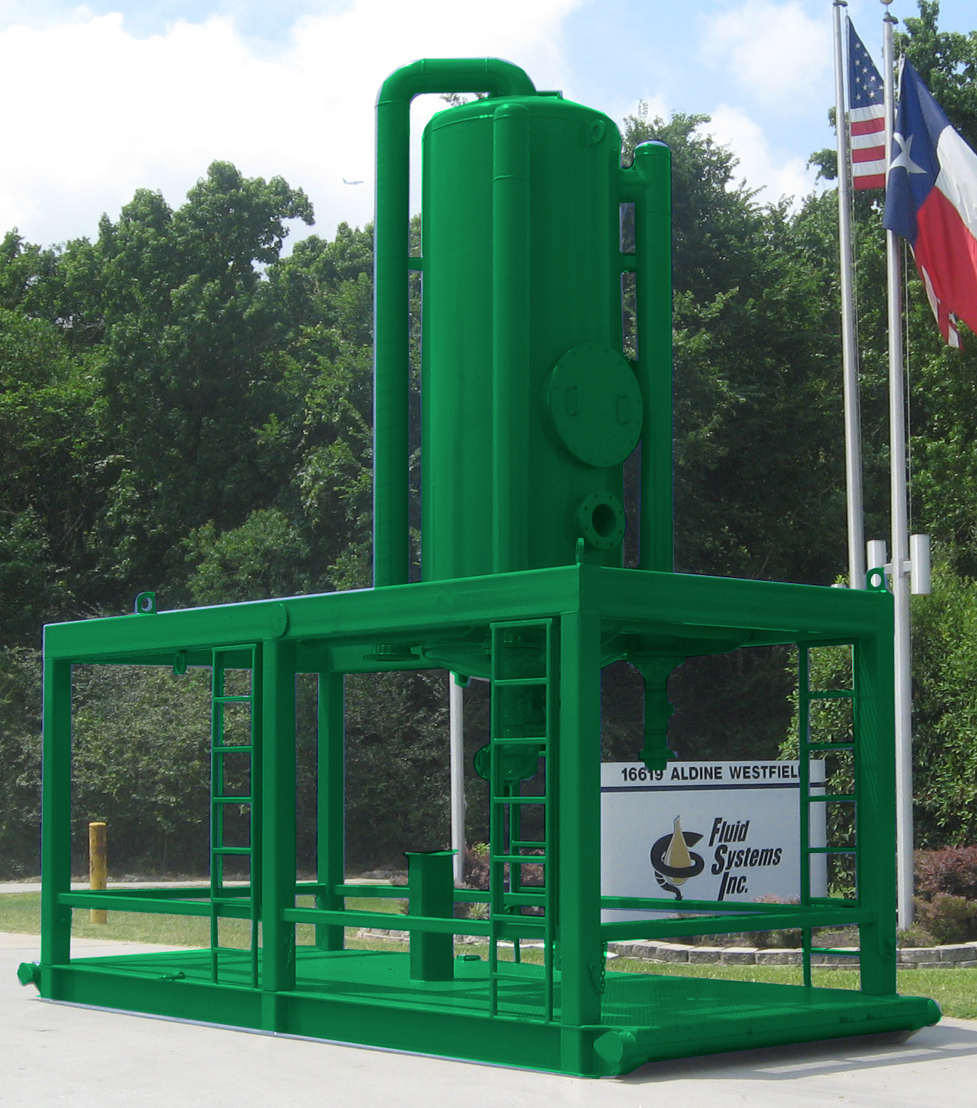 Mud Gas Separator with Telescopic Frame